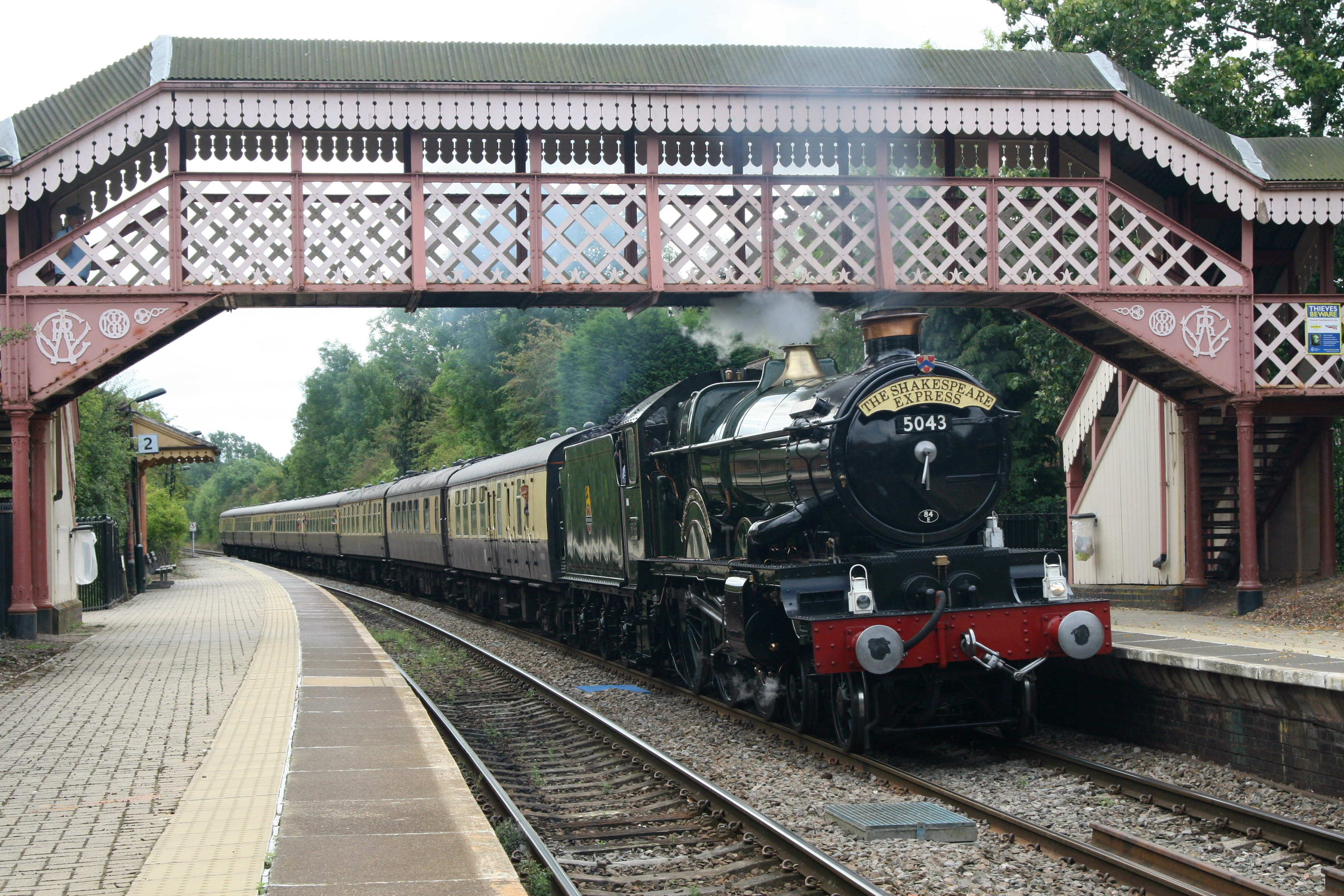 Castle Class 5043 Earl of Mount Edgcumbe on the Shakespeare Express Wilmcote 14-08-2011